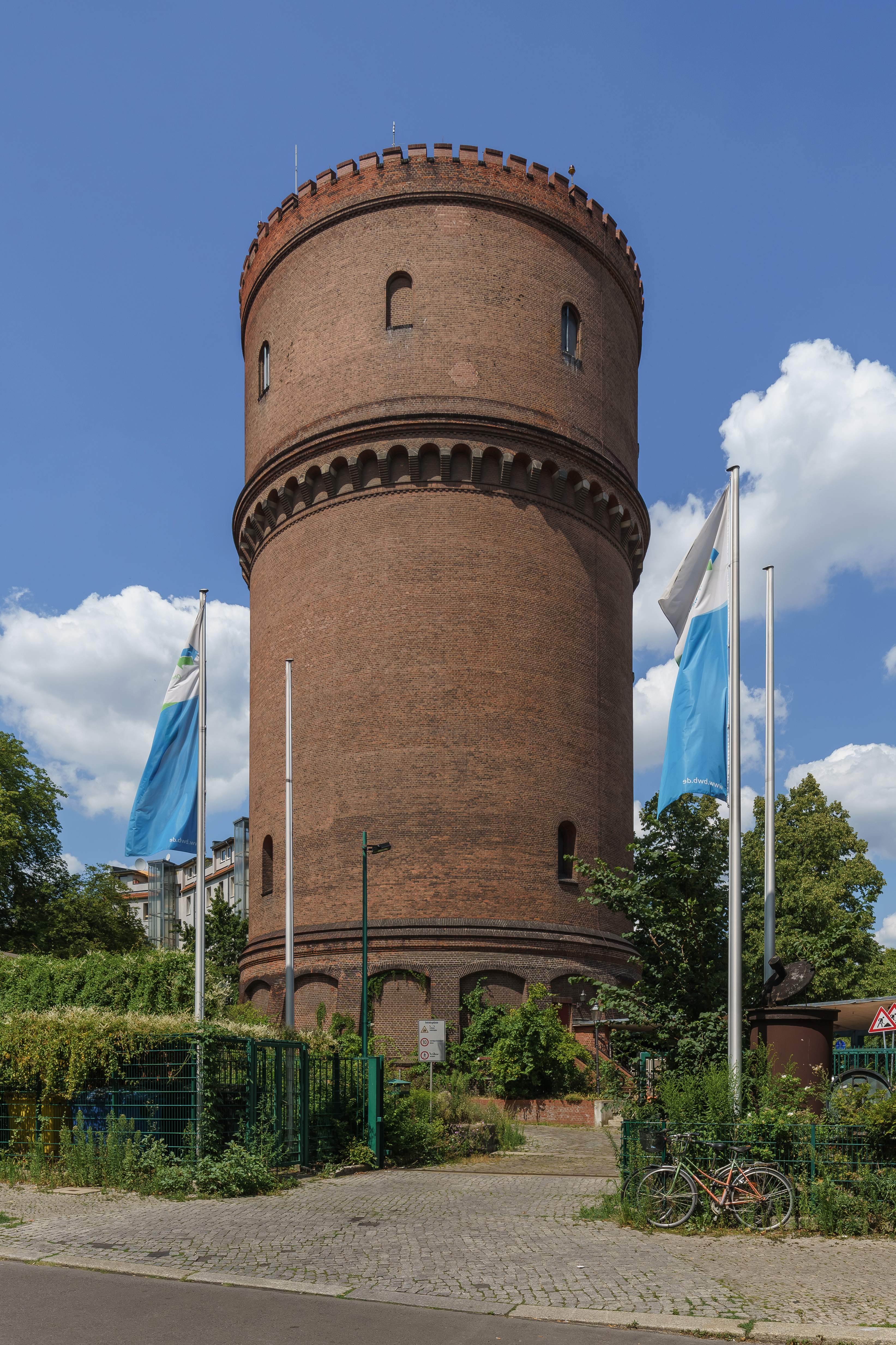 Neukölln water tower in Berlin, Germany